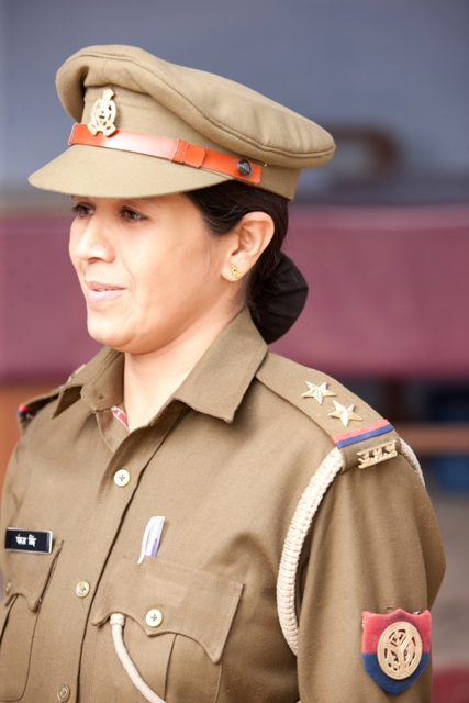 Lady Police officers are being given greater responsibilities